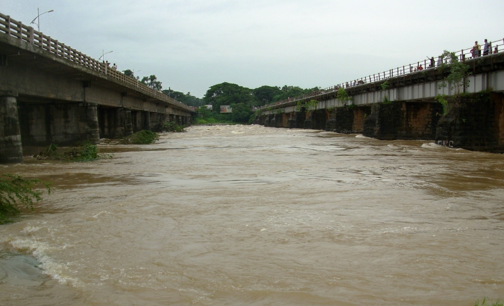 The new Kochi Bridge and the old Kochi Bridge (before collapsing) across Bharathapuzha at Cheruthuruthi